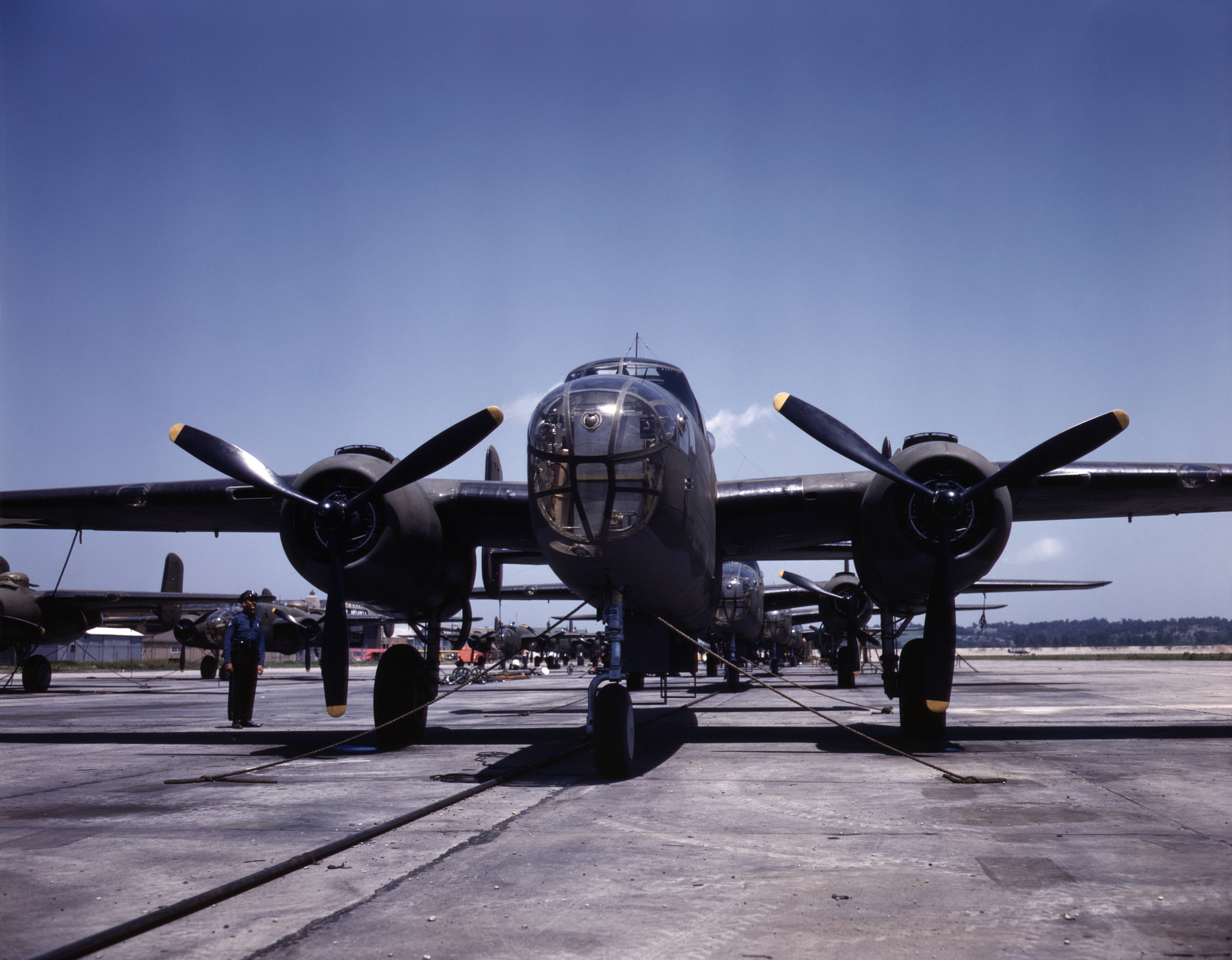 B-25 bombers on the outdoor assembly line at the North American Aviation plant in Kansas City, Kansas. Almost ready for their first test flight.